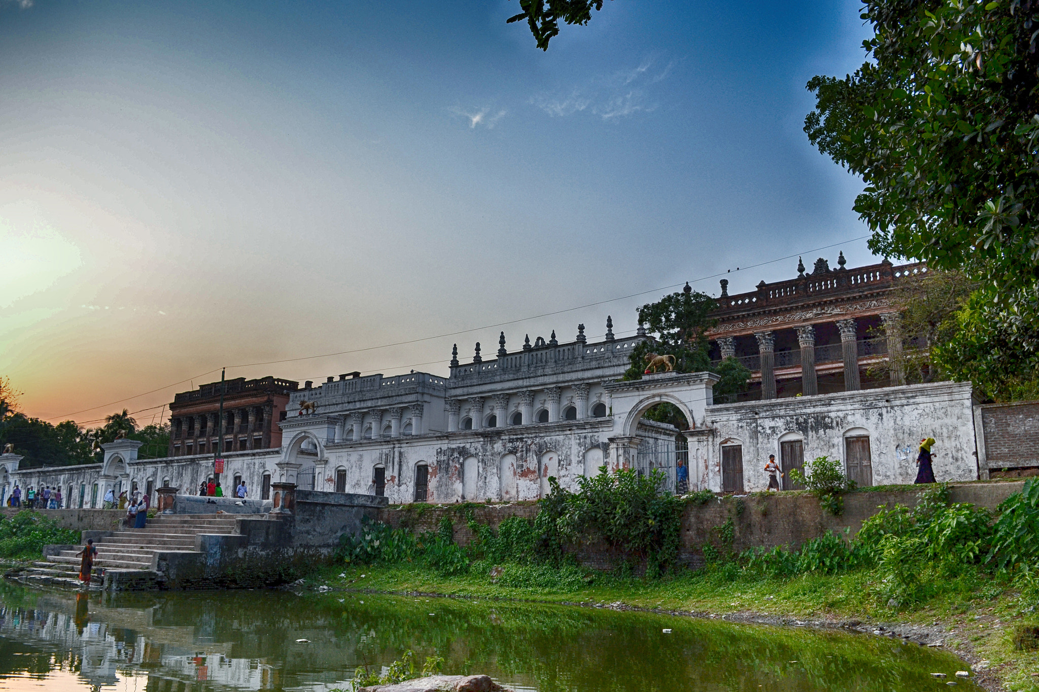 500px provided description: Baliati Royal Palace, Manikganj, Bangladesh [#travel ,#architecture ,#palace ,#architectural ,#historical ,#historic ,#royal ,#bangladesh ,#royal palace ,#manikganj ,#baliati]